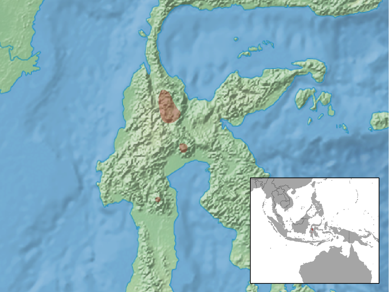 geographic distribution of Tateomys rhinogradoides